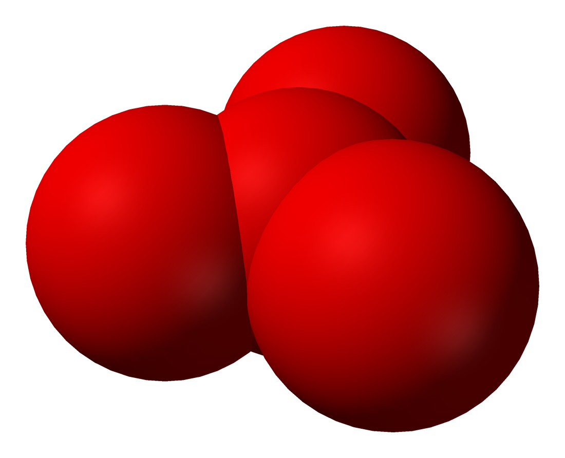 Space-filling model of a proposed D3h structure for the tetraoxygen molecule, O4. Structural data from Røeggen, I.; E. Wisløff Nilssen (May 1989). "Prediction of a metastable D3h form of tetra oxygen". Chemical Physics Letters 157 (5): 409–414. Image generated in Accelrys DS Visualizer.